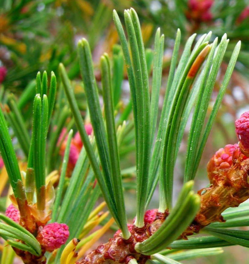 Whitebark Pine Pinus albicaulis, close up of fascicles; this species has 5 needles per fascicle.